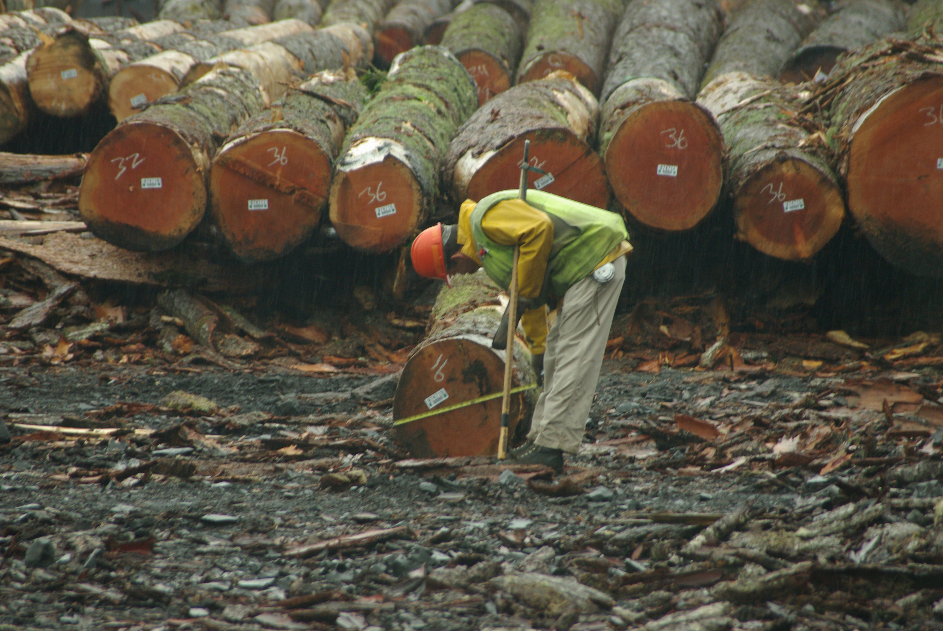 Bureau Scaler working on roll out